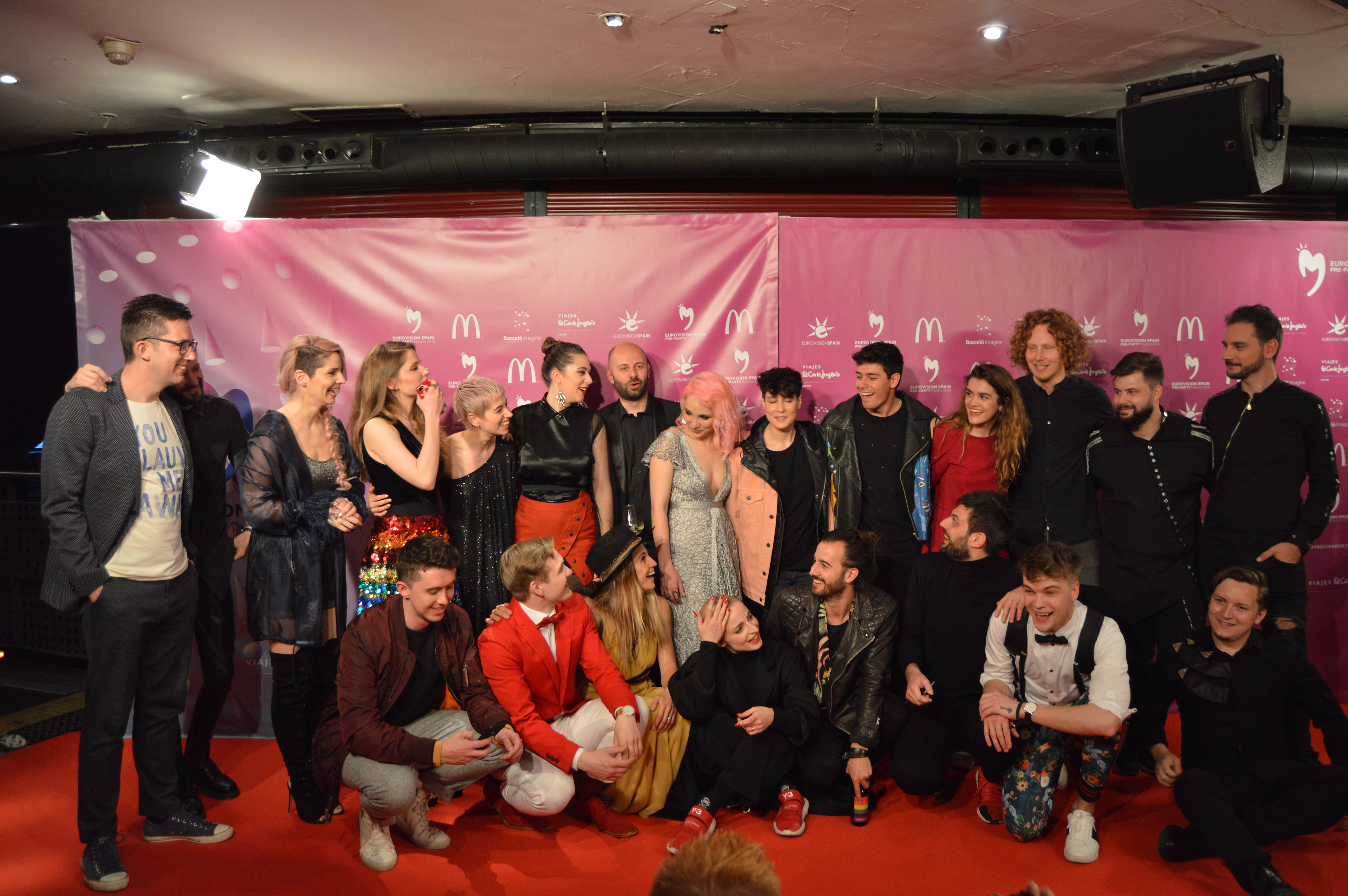 Eurovision 2018 singers from 21 countries at Madrid's Eurovision PreParty in April 2018